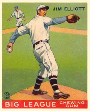 1933 Goudey baseball card of Jim "Jumbo" Elliott of the Philadelphia Phillies #132. PD-not-renewed.